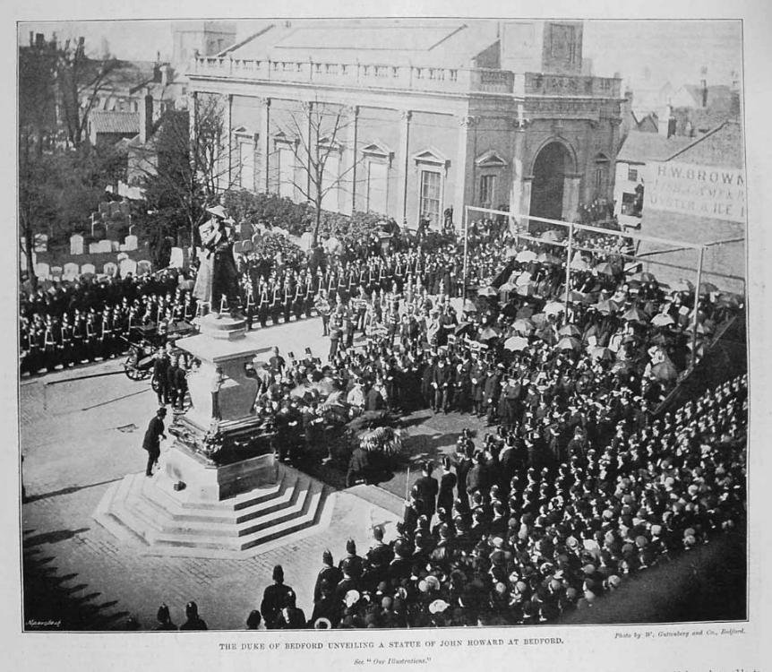 The unveiling of the Statue of John Howard in the Market Square, Bedford, on 7 April 1894.